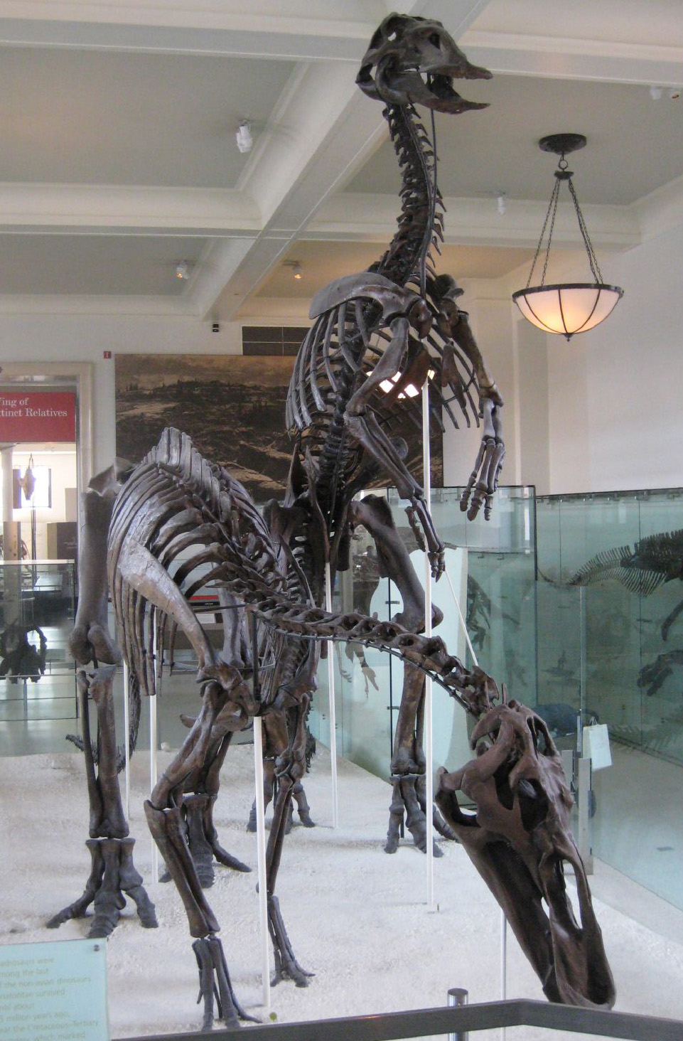 Anatotitan, American Museum of Natural History, New York. 65 million years ago. Apparently they had to blow up a hill to get these guys out of the ground.